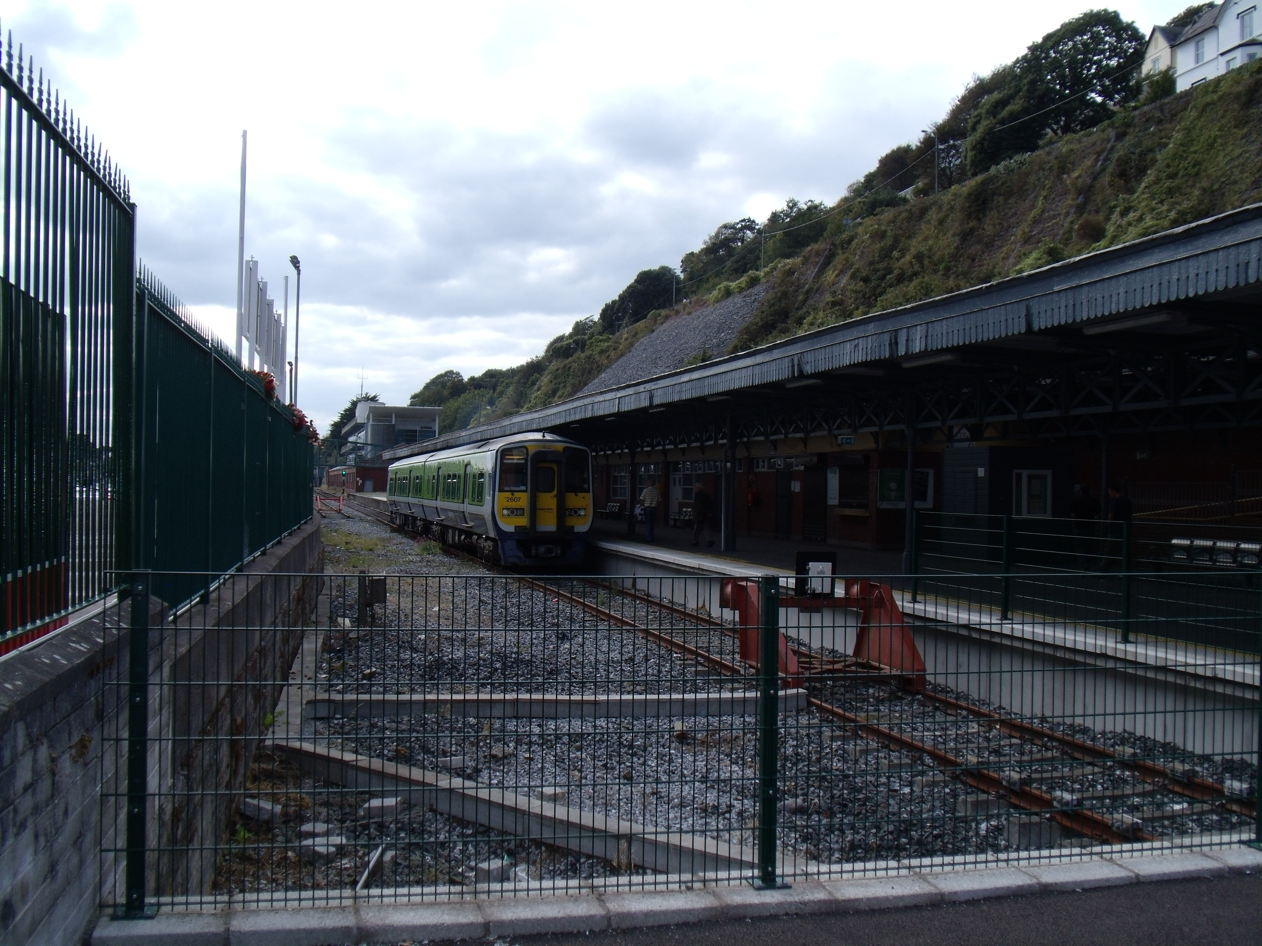 Railcars 2608 and 2607 in Cobh. Please ignore the date and time given in the extended details as this photogaraph was taken in the local Summer (third quarter) of 2011. I uploaded this before I knew that the date and time on my camera was out of sync.